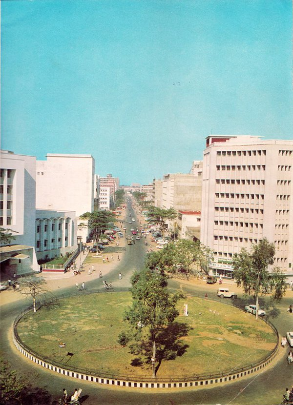 The central business district of Dacca, circa 1965